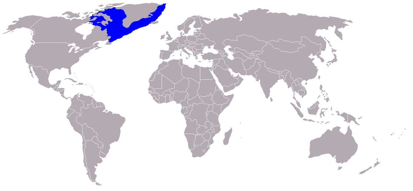 Distribution of the hooded seal (Cystophora cristata)